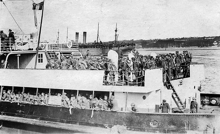 S.S. Traffic (White Star Line Ferry Lighter) Coming alongside a transport to transfer troops for passage home to the United States, 1919. Location is probably Brest, France. This photo shows Traffic's superstructure, seen from off her the port quarter. The ship in the background is either USS Finland (ID # 4543) or USS Kroonland (ID # 1541). The original image is printed on postcard ("AZO") stock. Donation of Dr. Mark Kulikowski, 2007. U.S. Naval Historical Center Photograph.